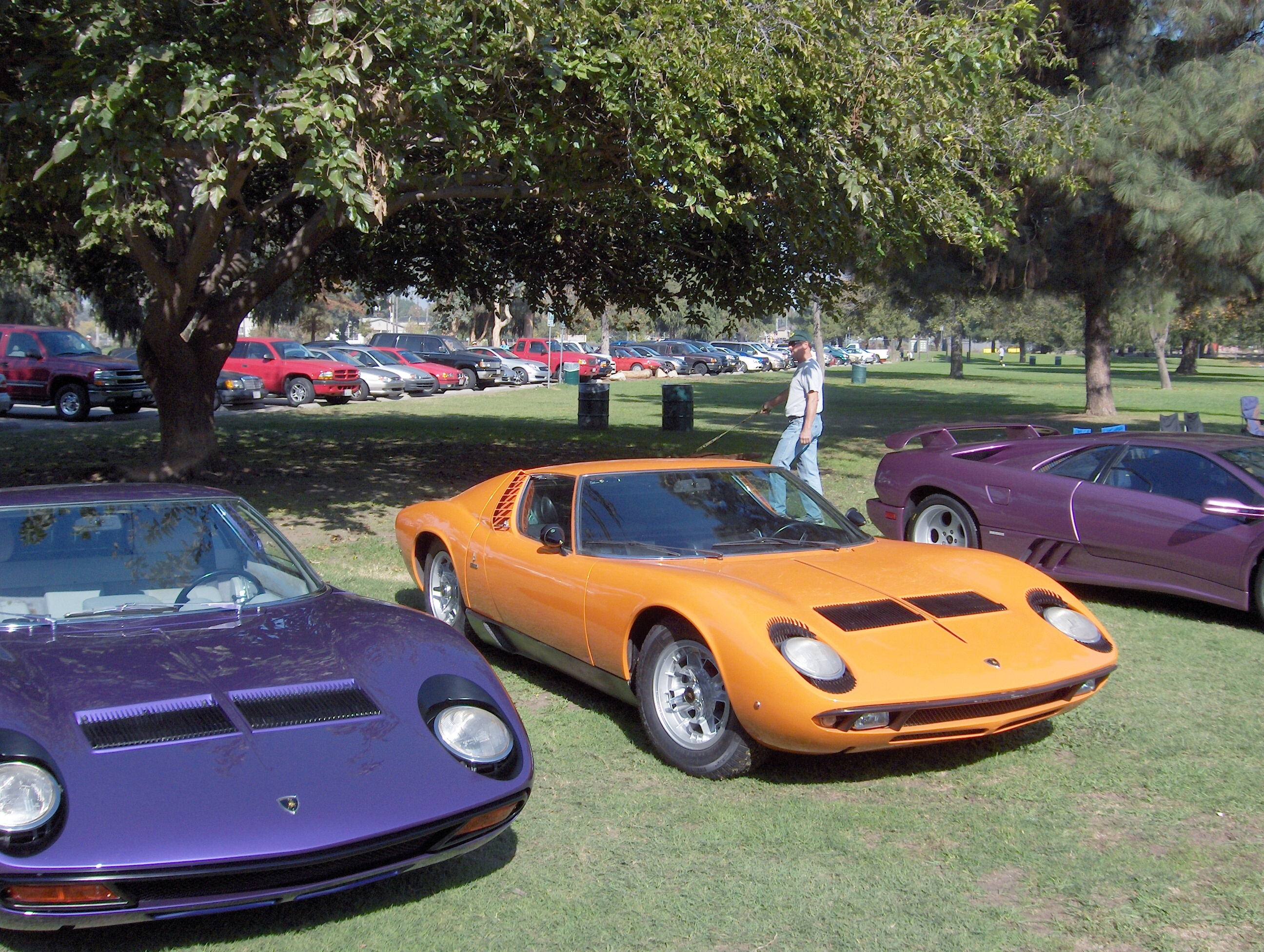 I took this photo in a public location.